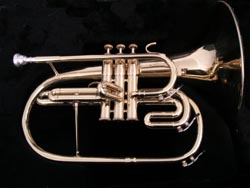 This is a Kanstul Instruments Custom Class marching mellophone in the key of F.